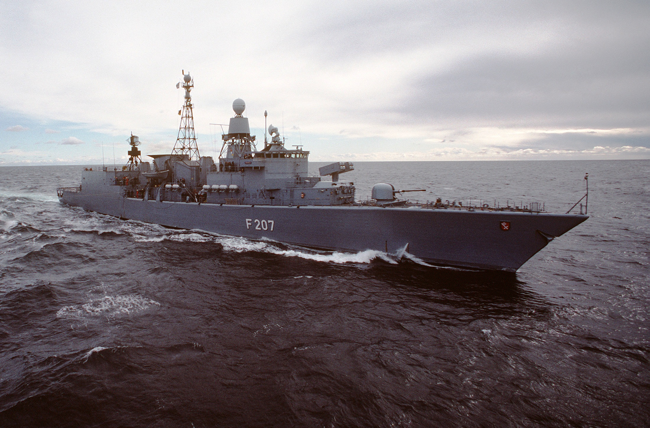 A starboard bow view of the German frigate FGS BREMEN (F 207) during the NATO Exercise Northern Wedding 86.